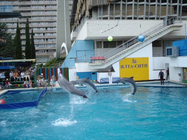 Dolphinarium in Yalta (Hotel Yalta), Ukraine